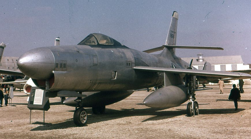 Republic XF-91 Thunderceptor